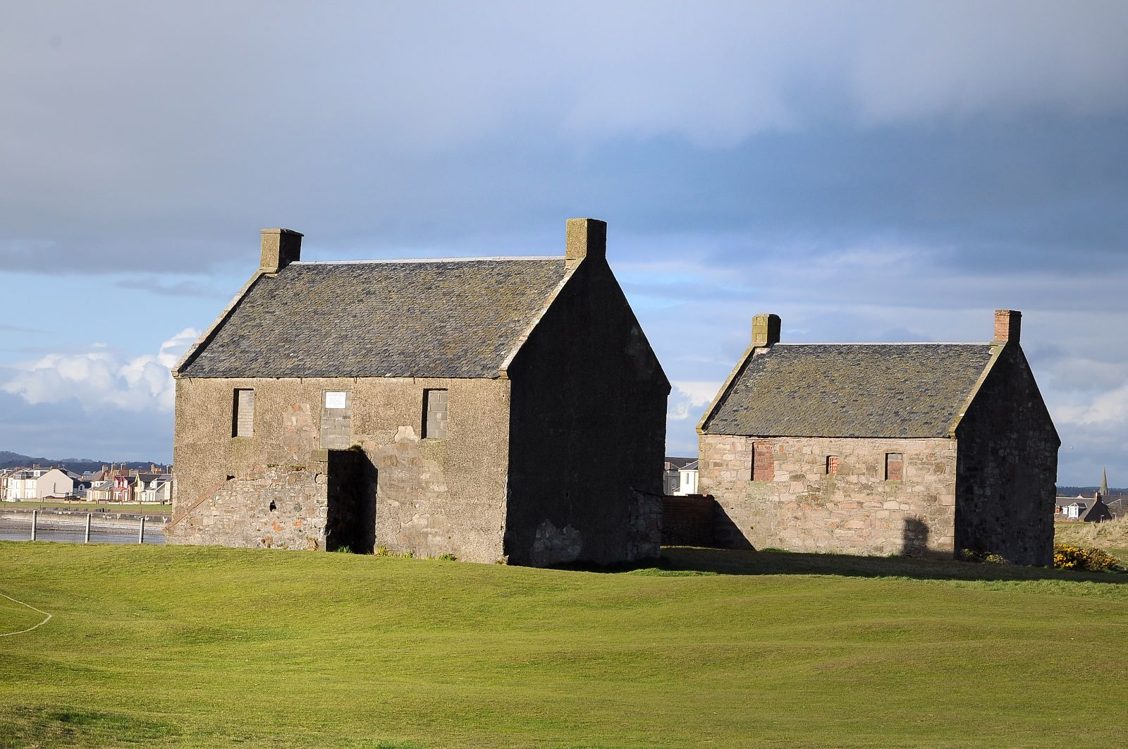 Dramatic and forlorn on the edge of a busy golf course. What stories could they tell ?